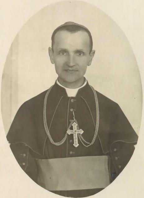 Janez Frančišek Gnidovec (1873-1939), slovene bishop.Bishop of Skopje, Macedonia